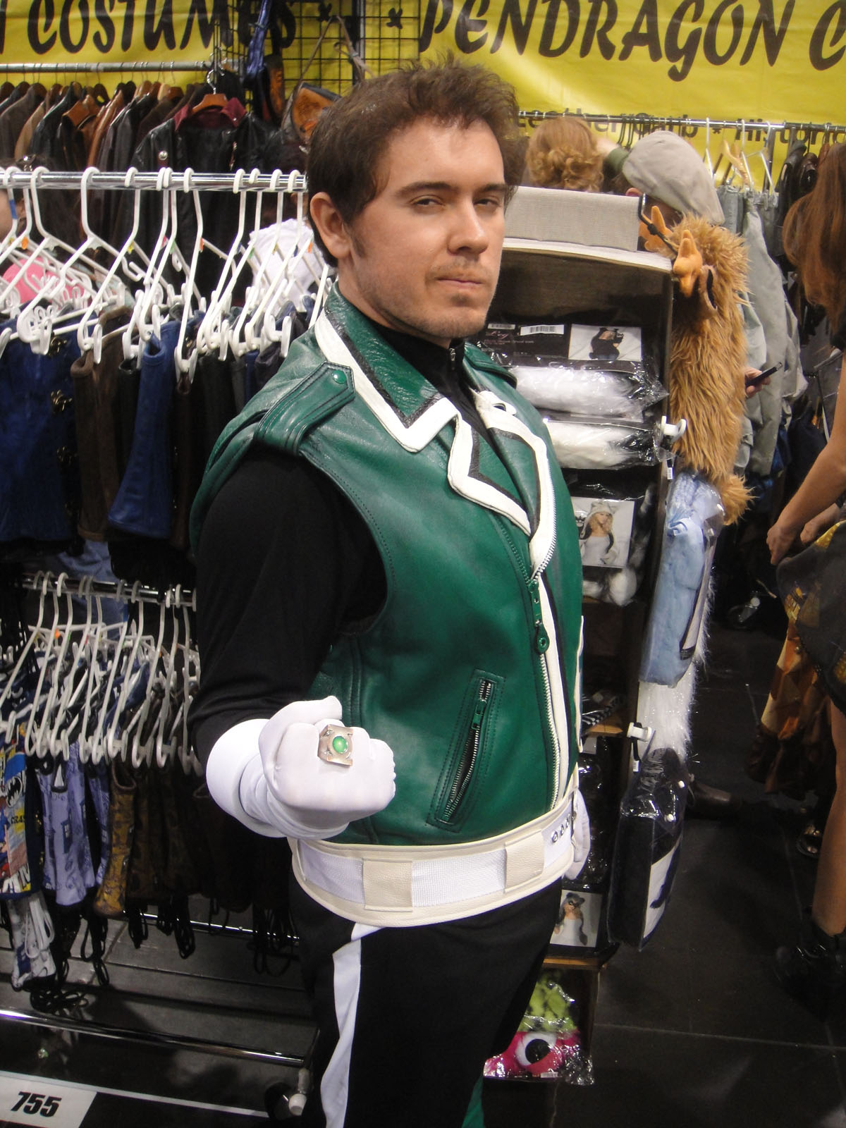 photo 2012 Pop Culture Geek taken by Doug Kline If you're interested in higher resolution versions of my images, contact me via my profile page.